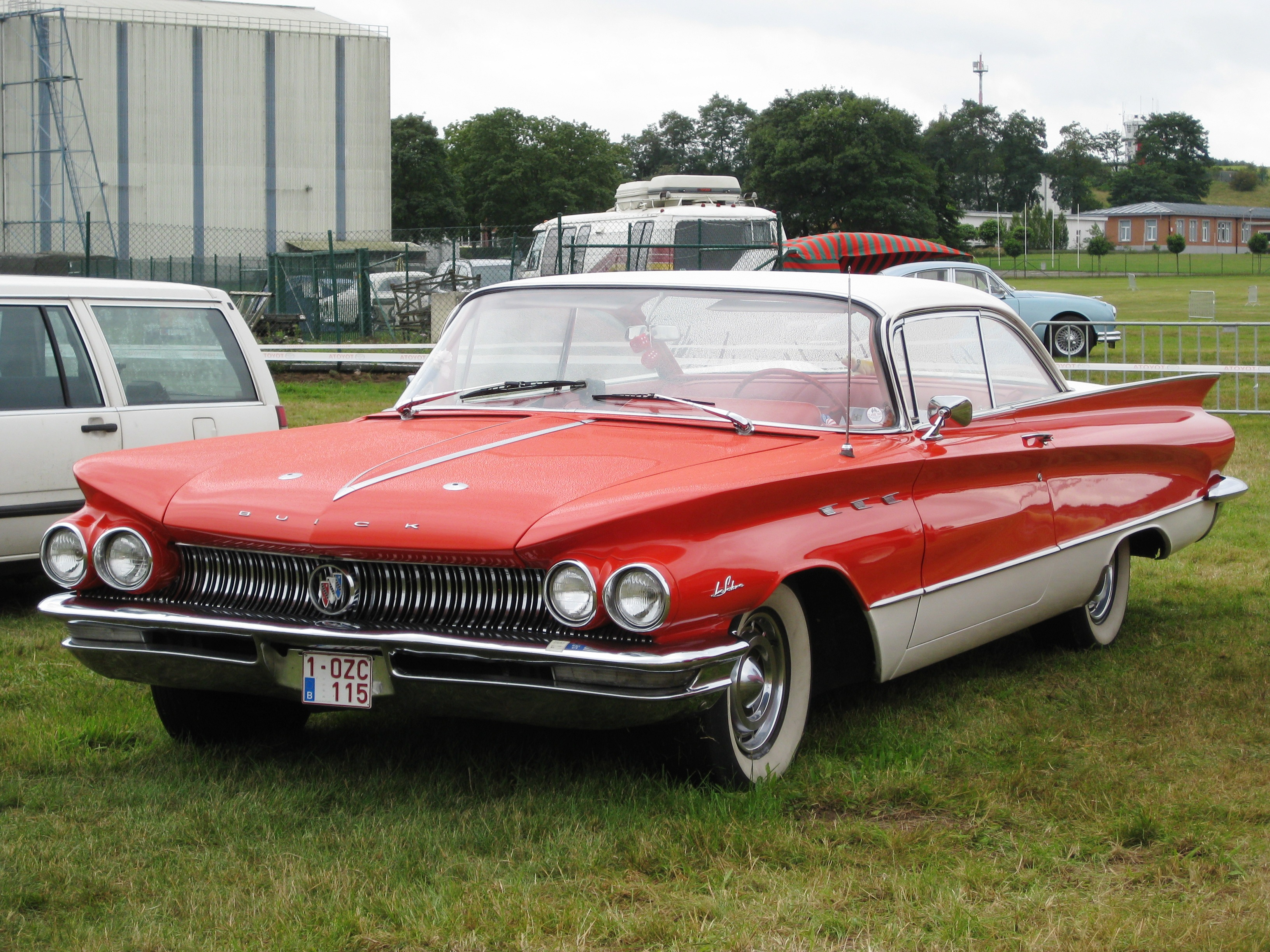 Buick LeSabre Two-Door Hardtop (1960)